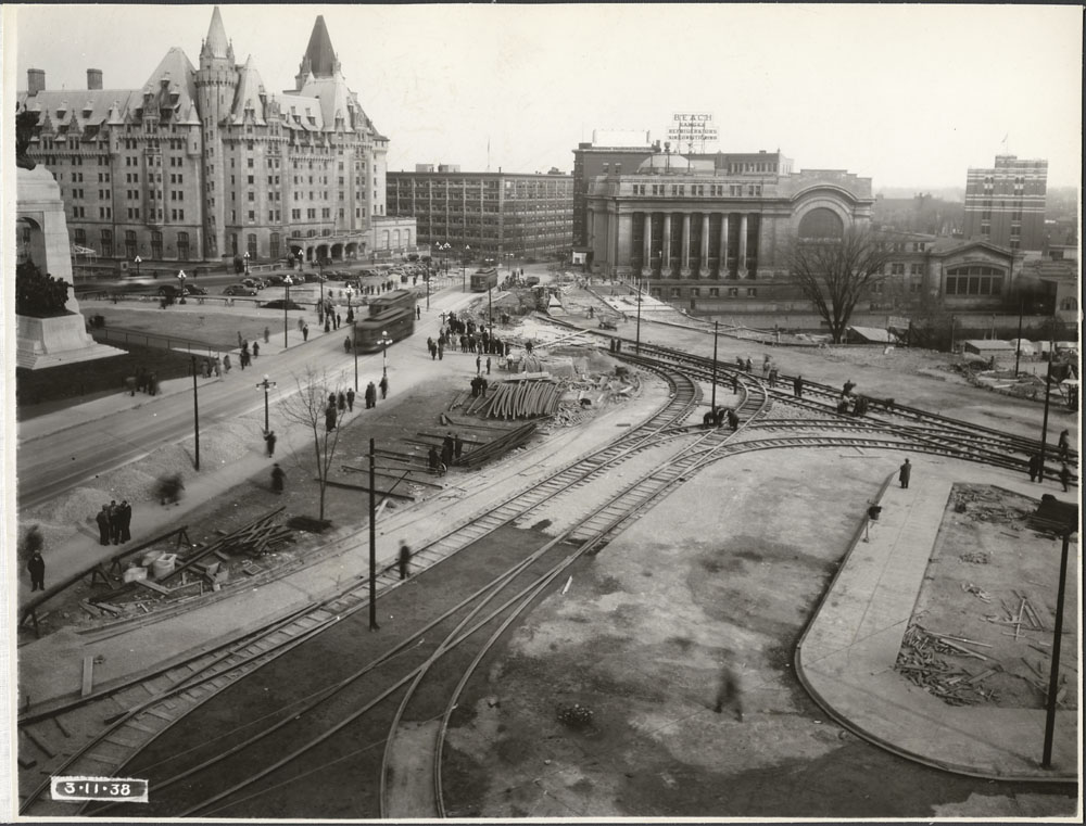 Improvements to Confederation Square with view of tracks